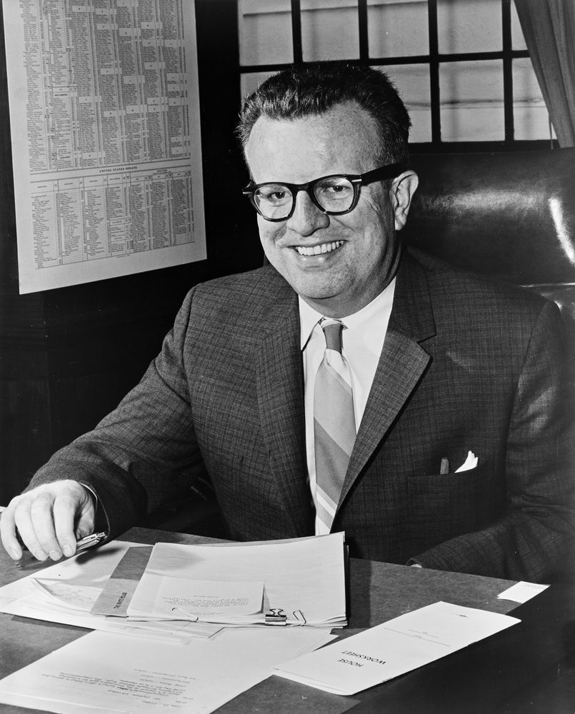 Special Assistant to the President for Congressional Relations and Personnel, Lawrence F. O’Brien.